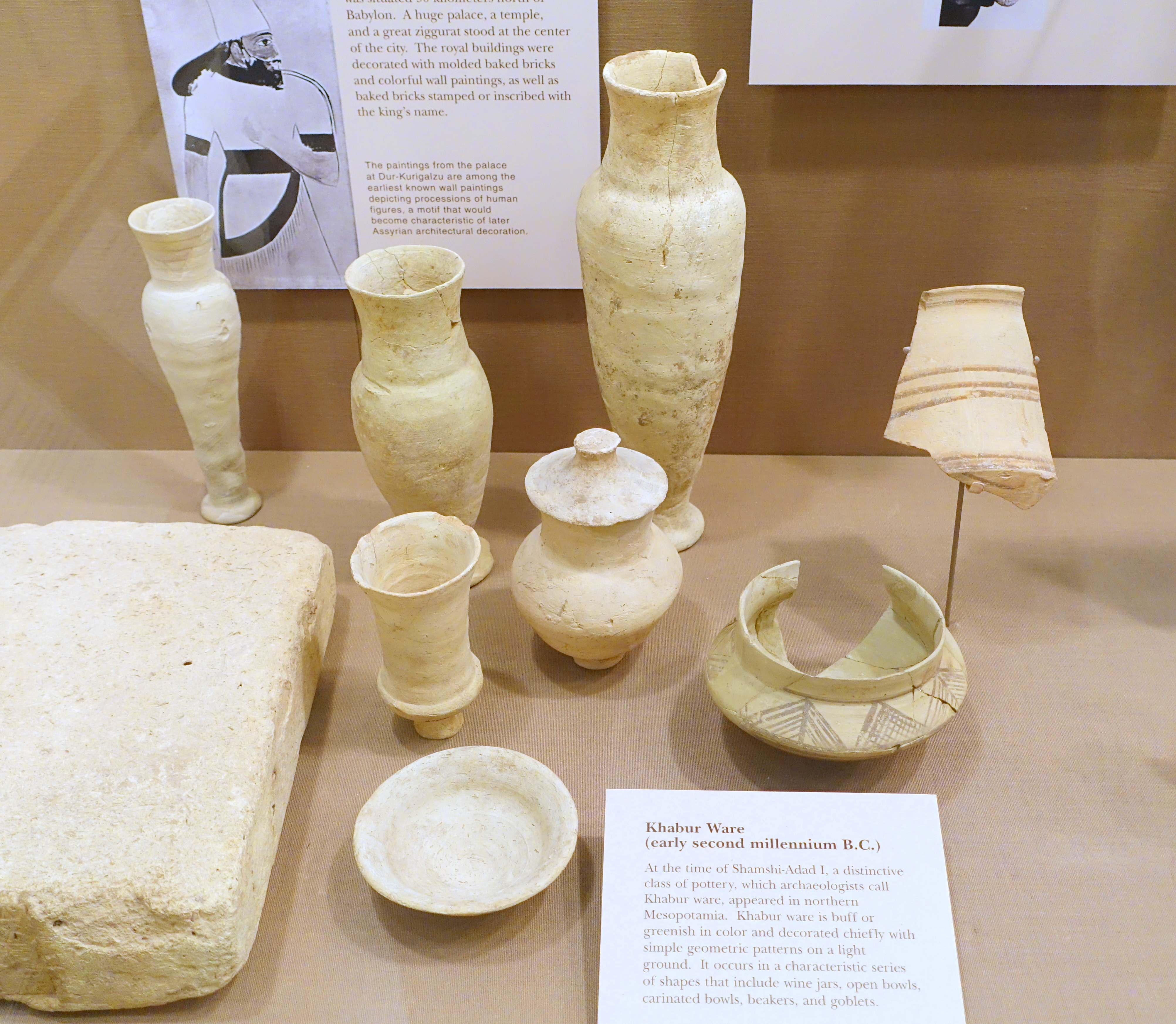 Exhibit in the Oriental Institute Museum, University of Chicago, Chicago, Illinois, USA. This work is old enough so that it is in the public domain.